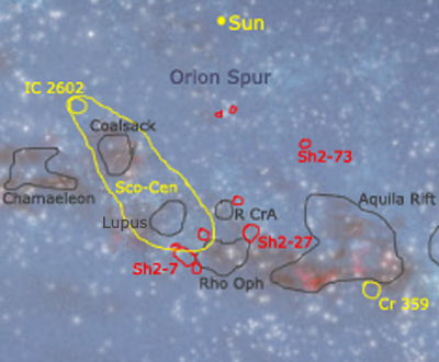 Map of near section of inner Orion Spur